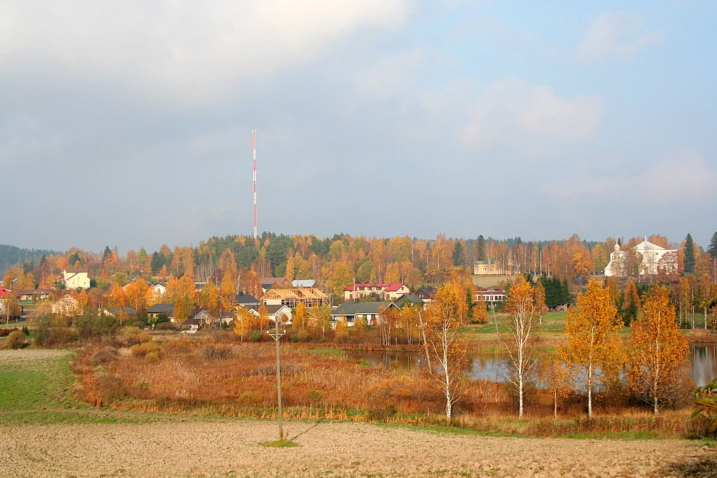 The municipality of Myrskyla (Myrskylä in Finnish and Mörskom in Swedish) Founded: 1636 Geographical position: N 60°39.482' E 025°51.375' (nearby) The southern part of the main village protographed N 60°39.908' E 025°50.769' Photograph: Canon EOS 350D, Canon Zoom Lens EF-S 18-55 mm 1:3.5-5.6 II Olli-Jukka Paloneva, (Attribution recommendable) References: The municipality of Myrskyla